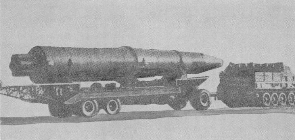 Soviet three-stage solid-fueled submarine- or ship-launched SLBM with 7-rocket motor cluster on its 1st stage on display, rolling on a wheeled platform being towed by tracked transporter vehicle